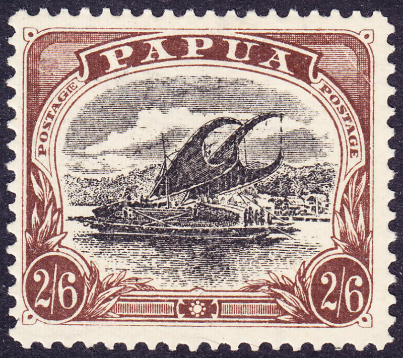 Papua Lakatoi 2s 6d stamp with POSTAGIE variety.